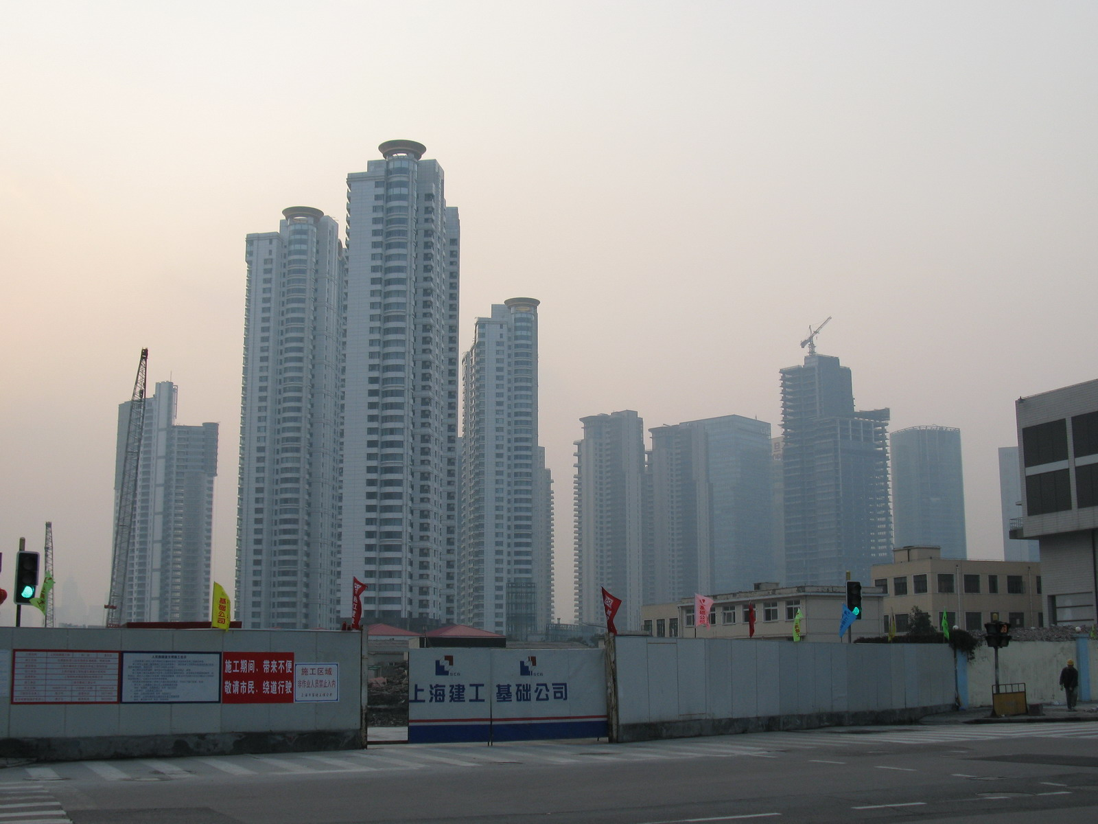 人民路隧道建筑工地 Construction Site of Renmin Road Tunnel